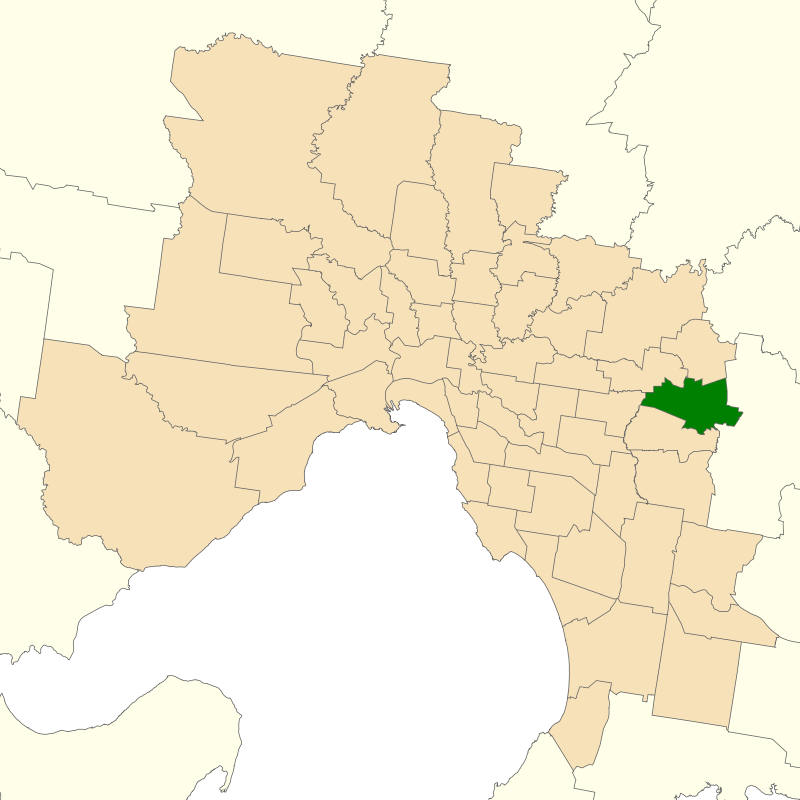 Location of the Victorian electoral district of Bayswater (dark green) in the Greater Melbourne area.